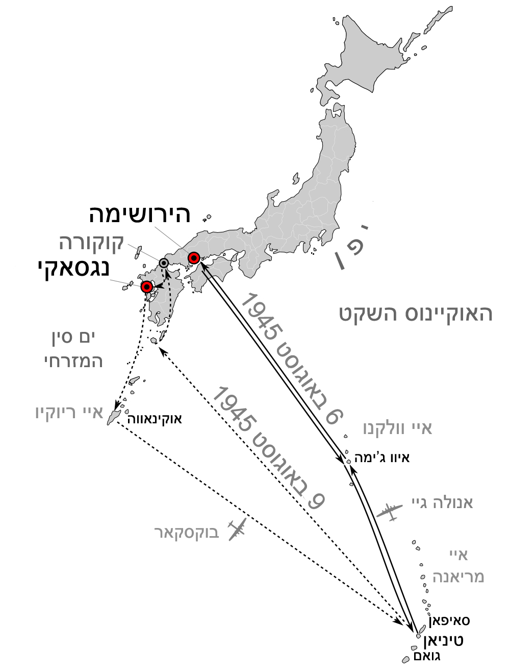 Mission map for the bombings of Hiroshima and Nagasaki, August 6 and August 9, 1945. Scale is not consistent due to curvature of Earth. Angles and locations are approximate. Kokura included because it was original target for August 9 but weather obscured visibility and so Nagasaki was chosen as backup. Based on File:Japan_large_full.svg and this Department of Energy map. Created in Inkscape.